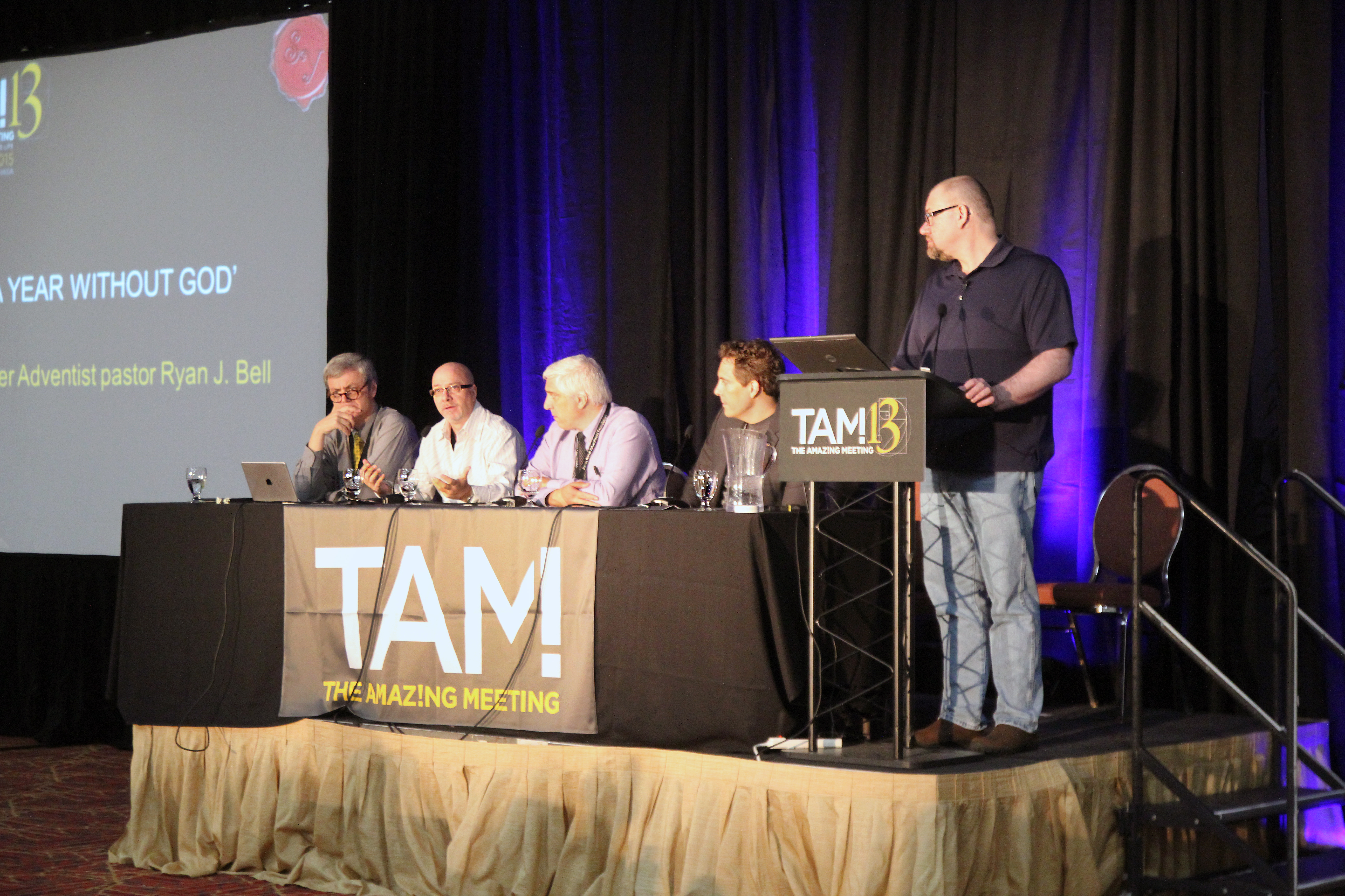 Richard Saunders, Emery Emery, Steven and Jay Novella and Derek Colanduno at the Podcaster Panel